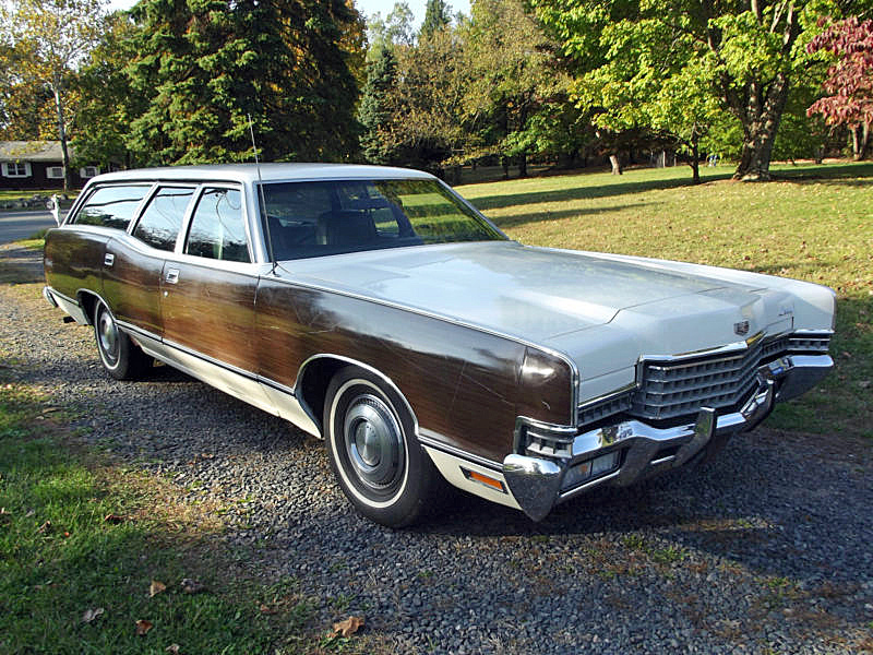 Right-front 3/4 view of a 1972 Mercury Marquis Colony Park station wagon.